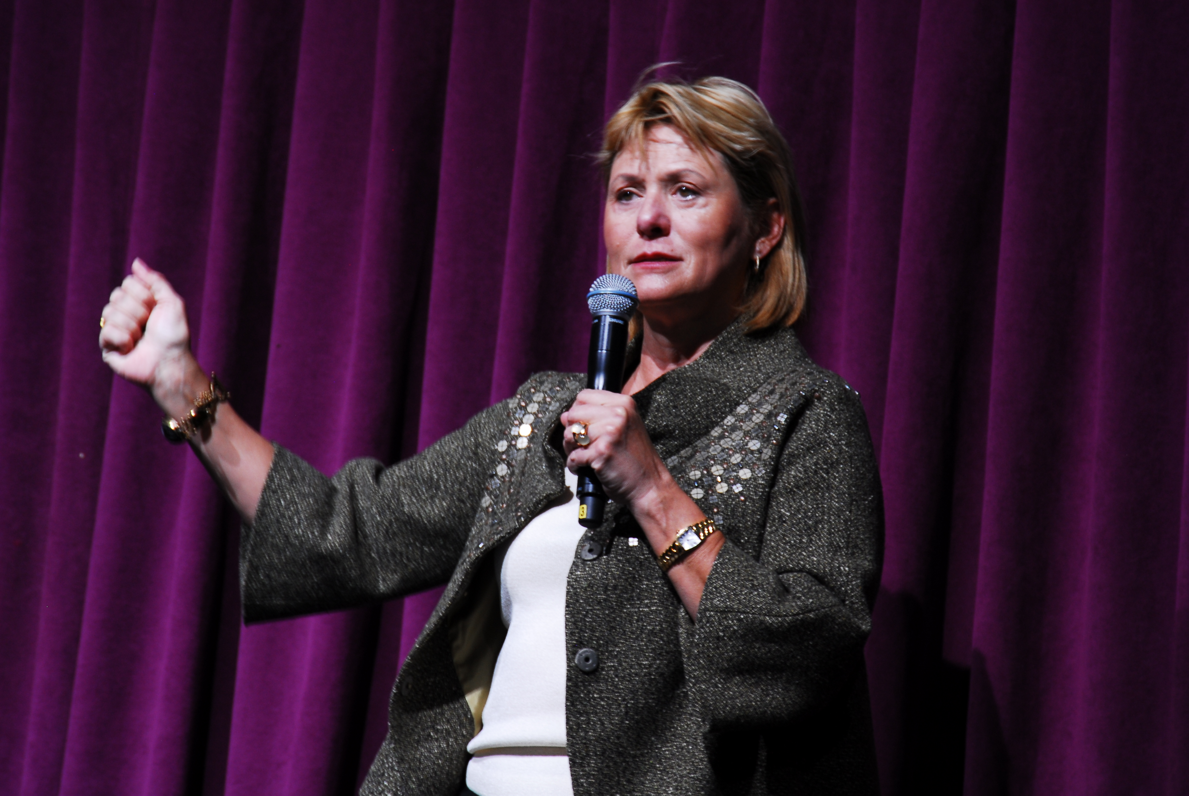 Carol Bartz, American technology executive, current CEO of Yahoo!, and former President and CEO of Autodesk, at her first Yahoo! employee all hands meeting, in Sunnyvale, California.